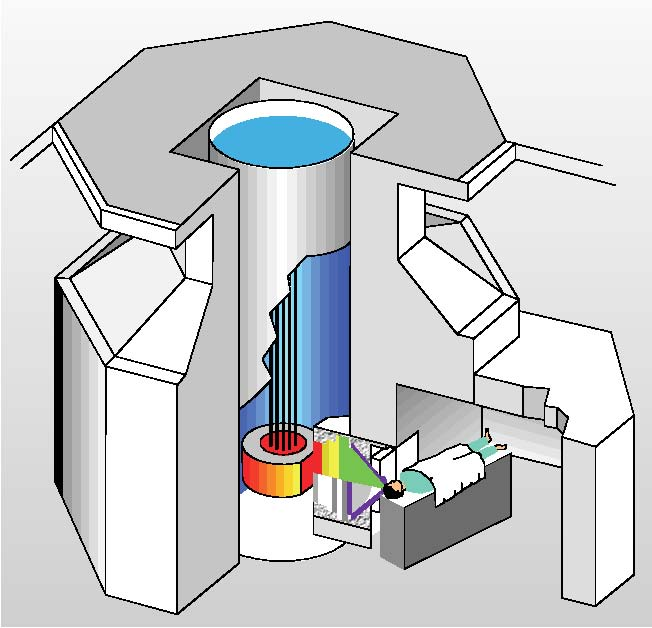 A schematic of the Boron neutron capture treatment facility at the Triga experimental reactor at Otaniemi, Finland.